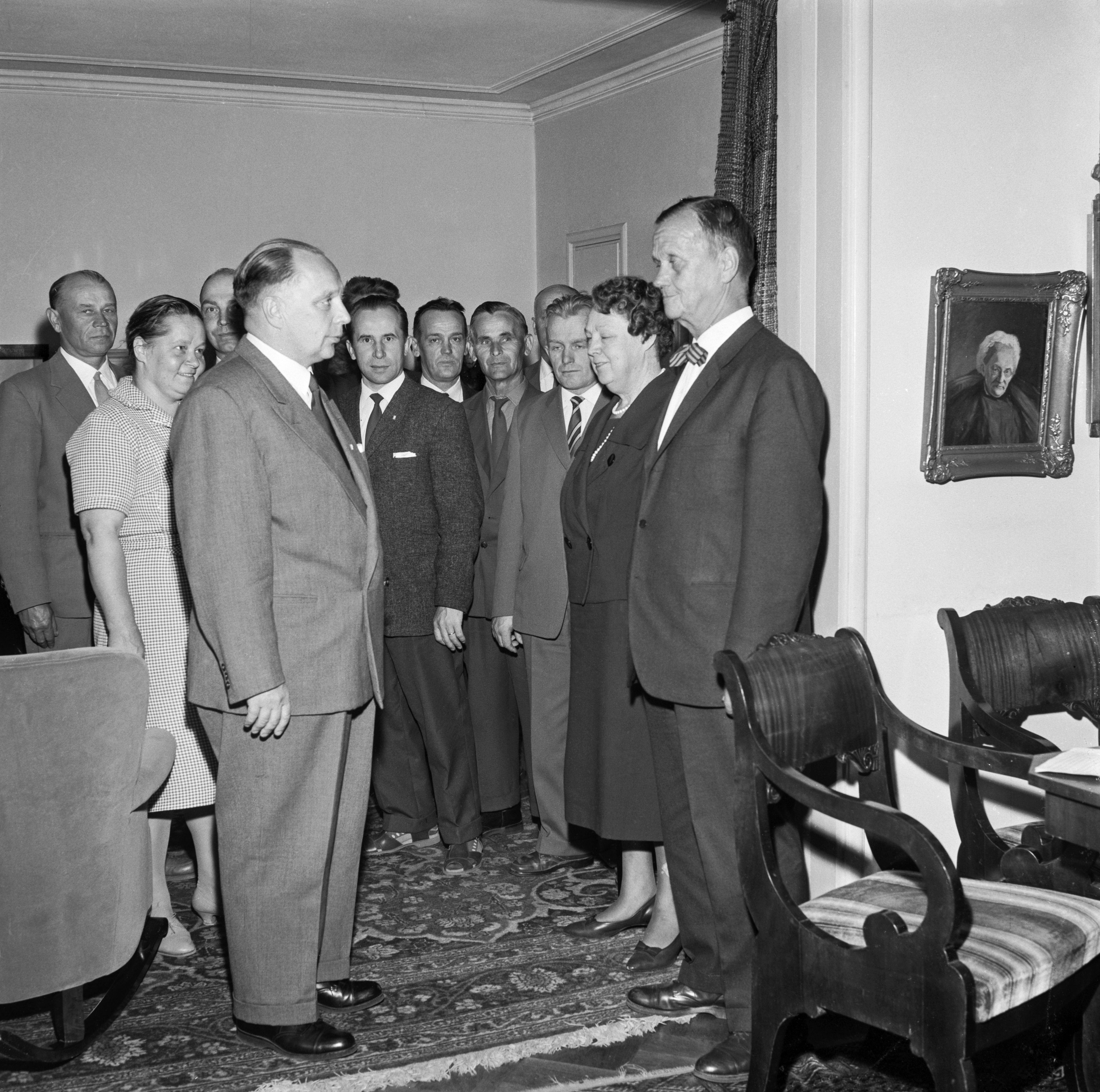 Photograph of Veikko Vennamo (on the left) and the Finnish Rural party in a meeting with Olavi Honka, presidential candidate (on the right).